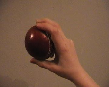 Photo taken by David Castell on 28 Dec 2005